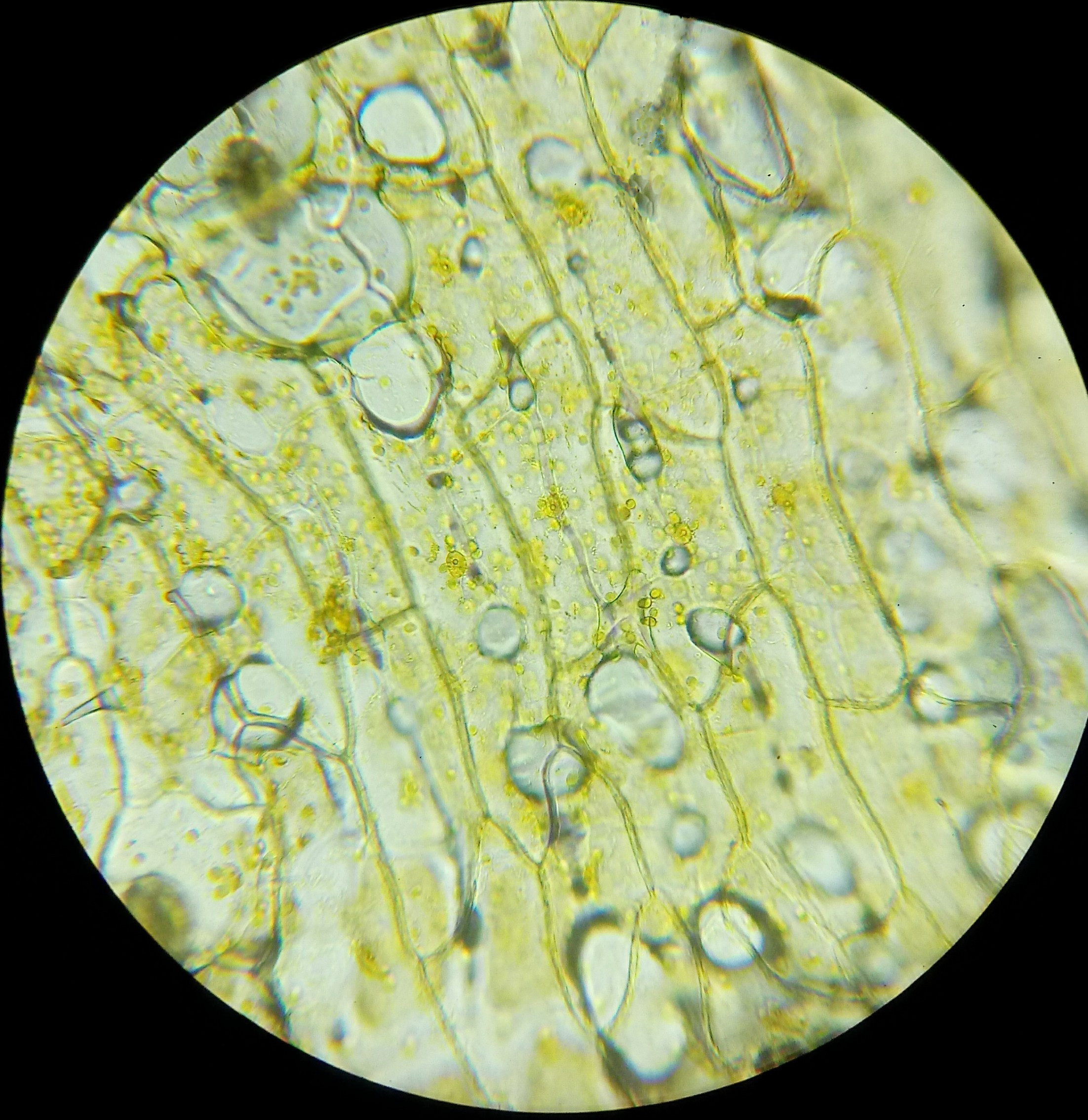 Slice of celery under a microscope at 400x magnification displaying individual cells and their chloroplasts